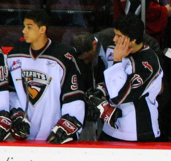 Vancouver Giants linemates Evander Kane and Casey Pierro-Zabotel on March 14, 2008.